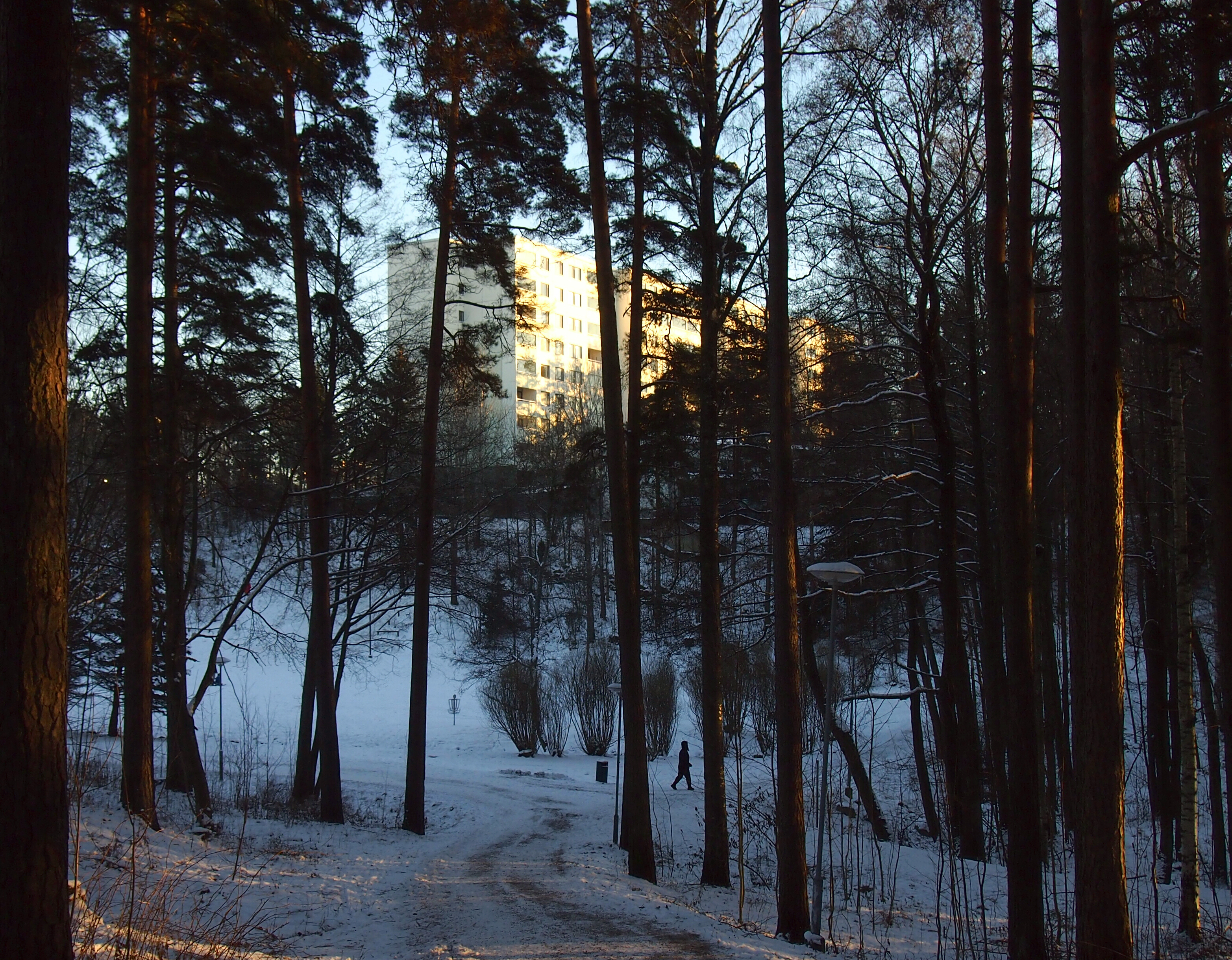 A park in Soukka, Espoo, Finland.